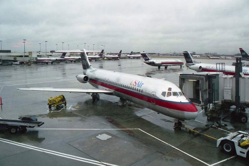 USAir DC-9 at Charlotte/Douglas International Airport in 1998